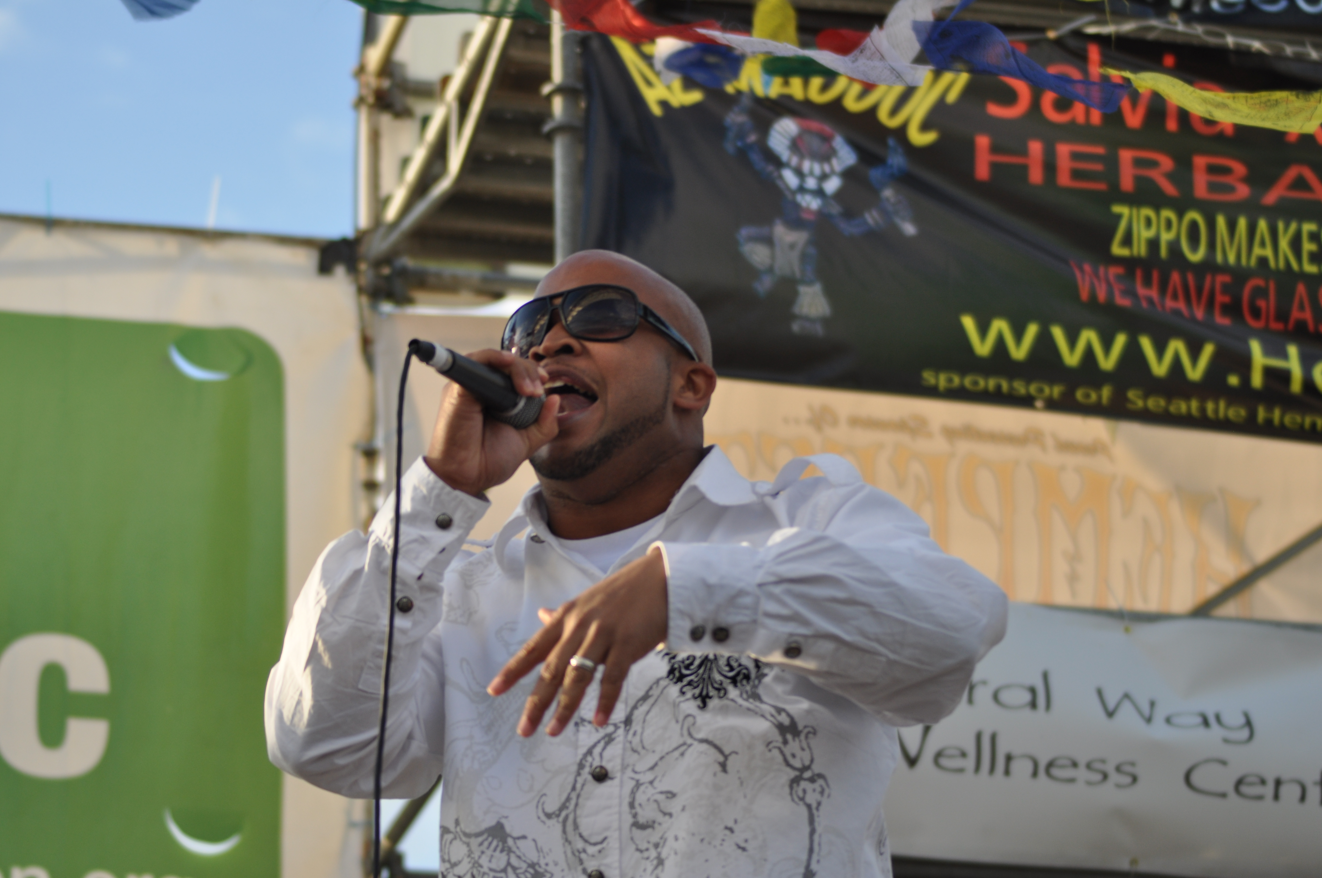 Skee-Lo performing at Seattle Hempfest 2010, Myrtle Edwards Park, Seattle, Washington.